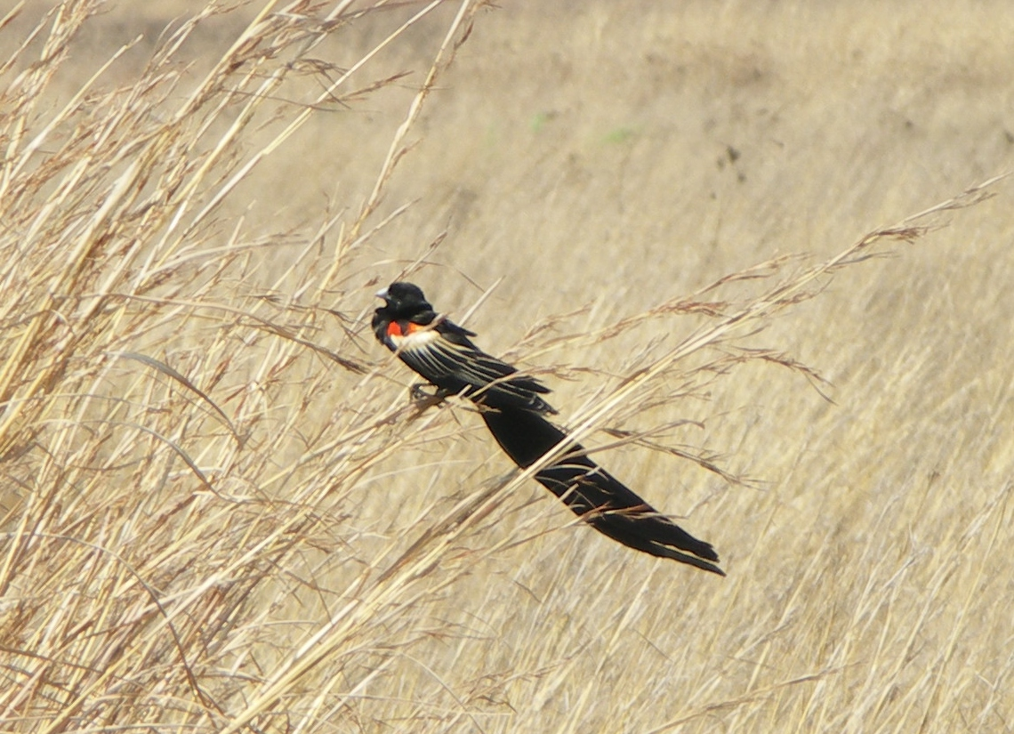 Long-tailed Widowbird (Euplectes progne) in the Rietvlei Nature Reserve, Tshwane, Gauteng, South Africa